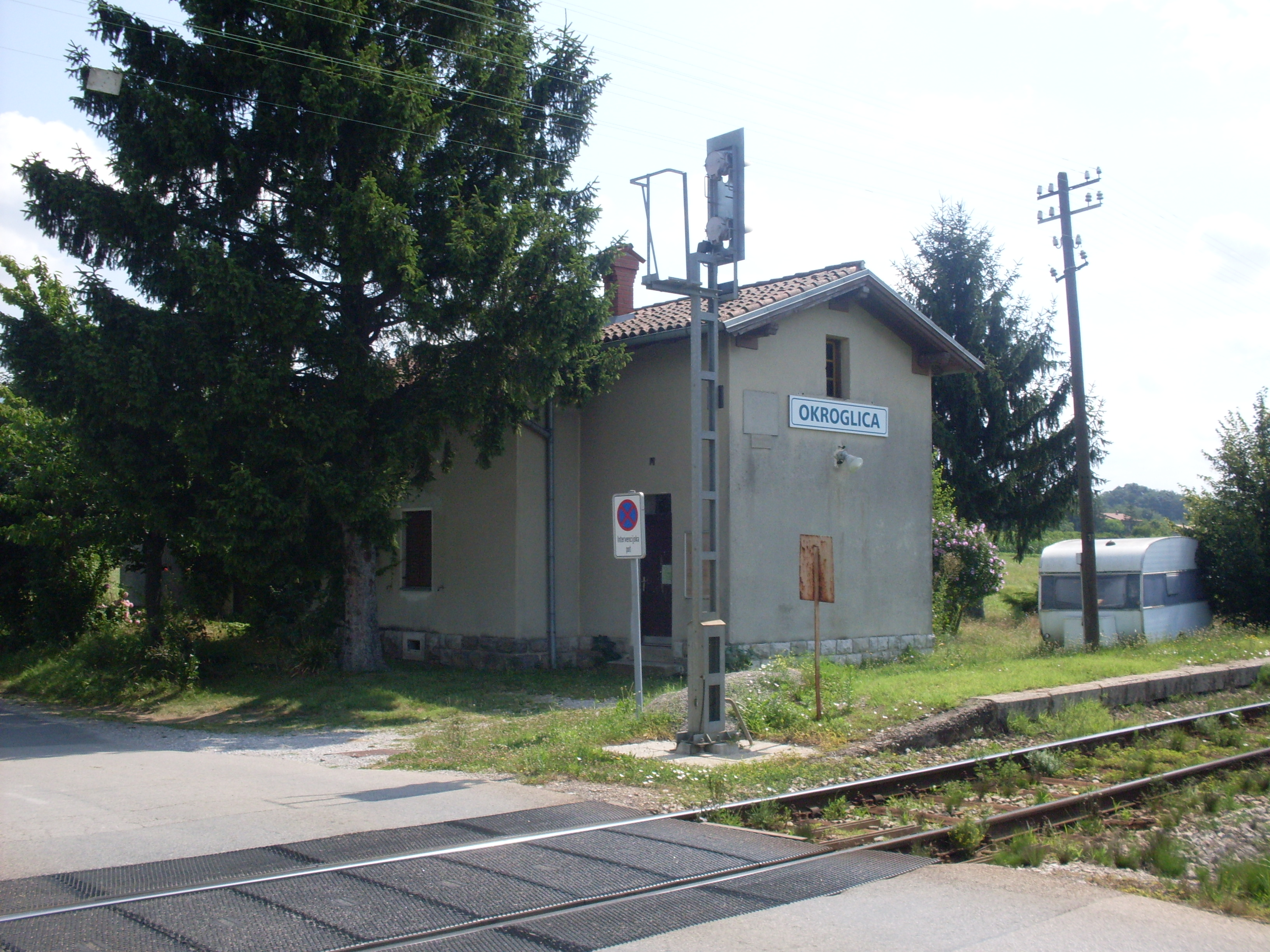 Railway halt Okroglica, located between Dombrava and VogrskoSlovenščina: Železniško postajališče Okroglica, ki se nahaja med Dombravo in Vogrskim